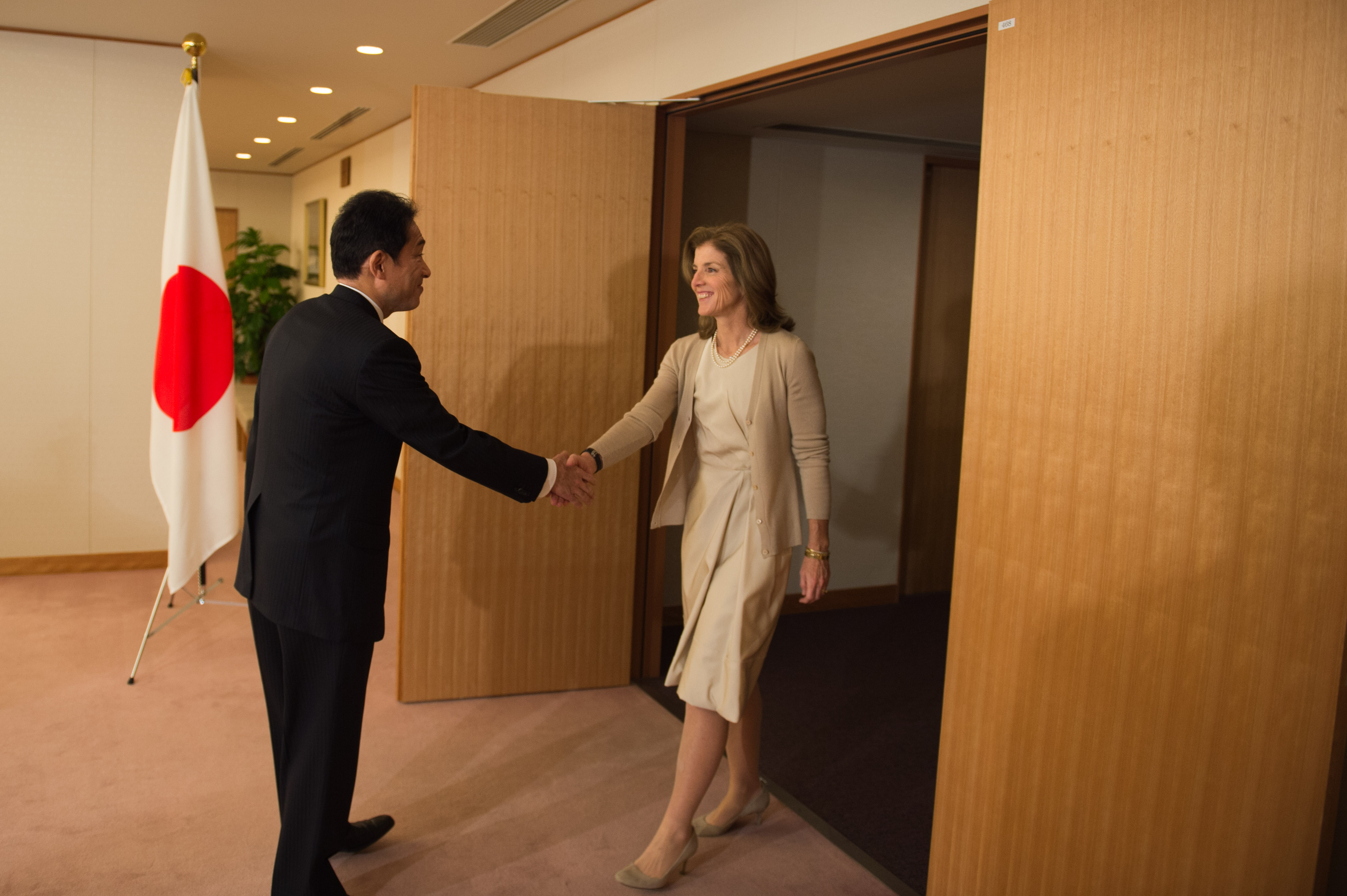 TOKYO, Japan (November 20, 2013) U.S. Ambassador to Japan Caroline Kennedy pays a courtesy call on Japanese Minister for Foreign Affairs Fumio Kishida. Foreign Minister Kishida presented Ambassador Kennedy with a gift. [State Department photo by William Ng/Public Domain]